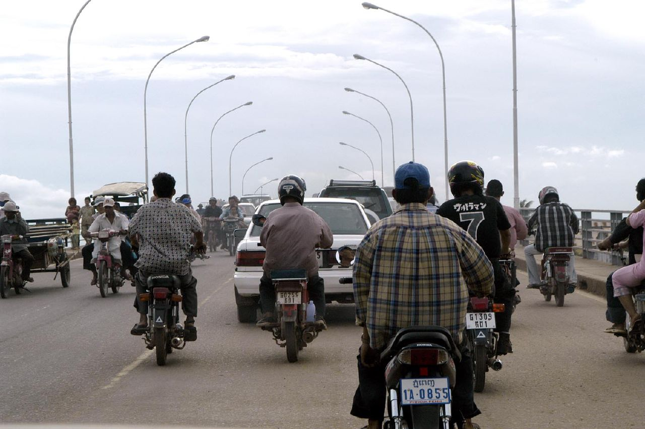 Monivong Bridge, Phnom Penh, Cambodia